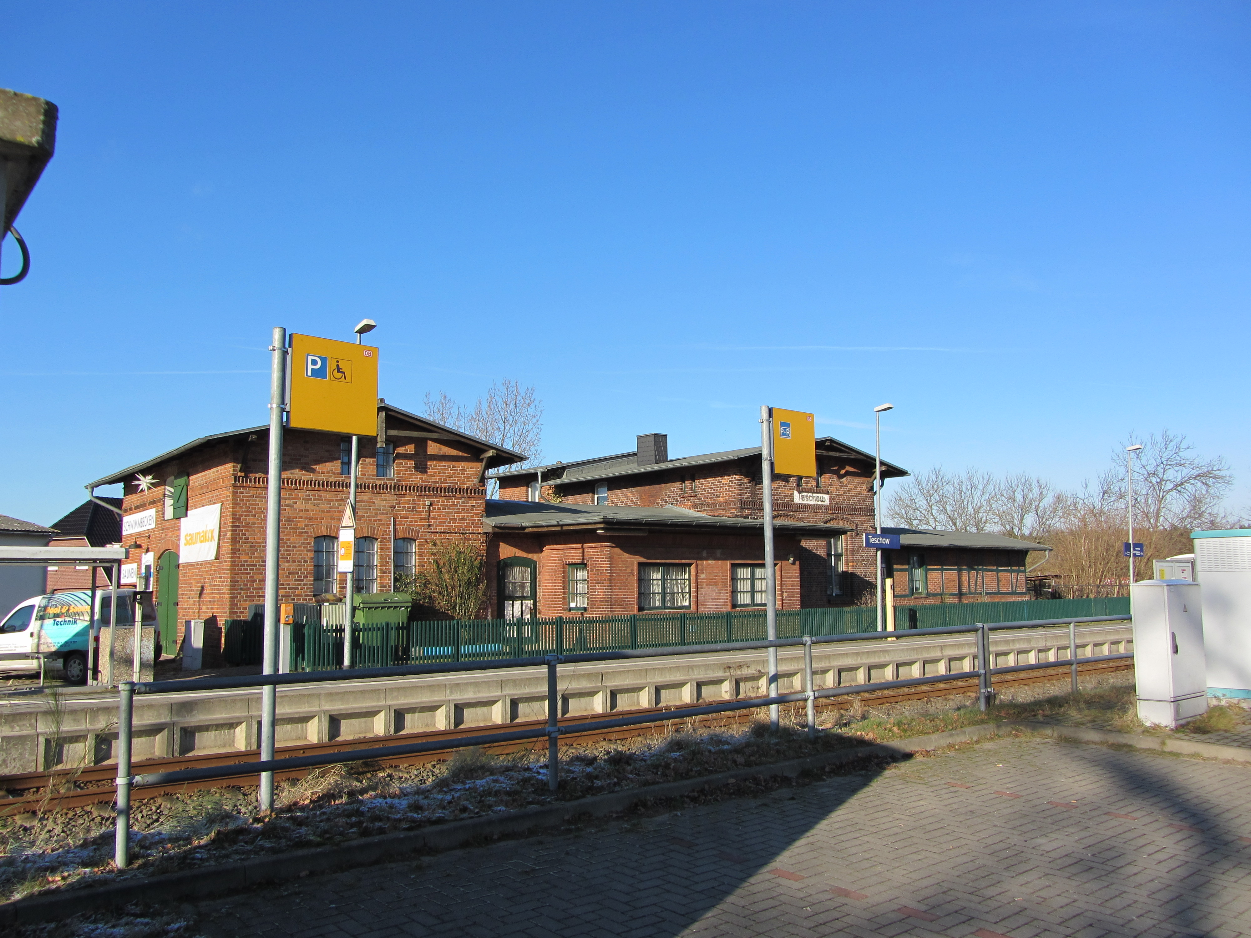 Train station in Teschow (Alt Bukow), district Rostock, Mecklenburg-Vorpommern, Germany